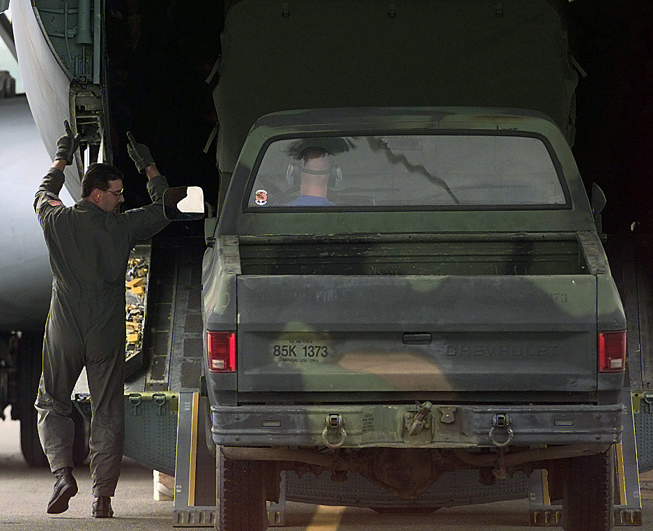 A US Air Force (USAF) C-141B Starlifter aircraft Loadmaster, 305th Air Mobility Wing (AMW), McGuire Air Force Base (AFB), New Jersey (NJ), and Rodeo 98 Team member, marshals a Commercial Utility Cargo Vehicle (CUCV II) Type B Truck into the cargo bay of his C-141B during the first half of the Engine Running Onload/Offload (ERO) competition, which is part of the over all USAF AMC sponsored Rodeo 98 airlift competition at McChord AFB, Washington (WA). Location: MCCHORD AFB, WASHINGTON (WA) UNITED STATES OF AMERICA (USA)